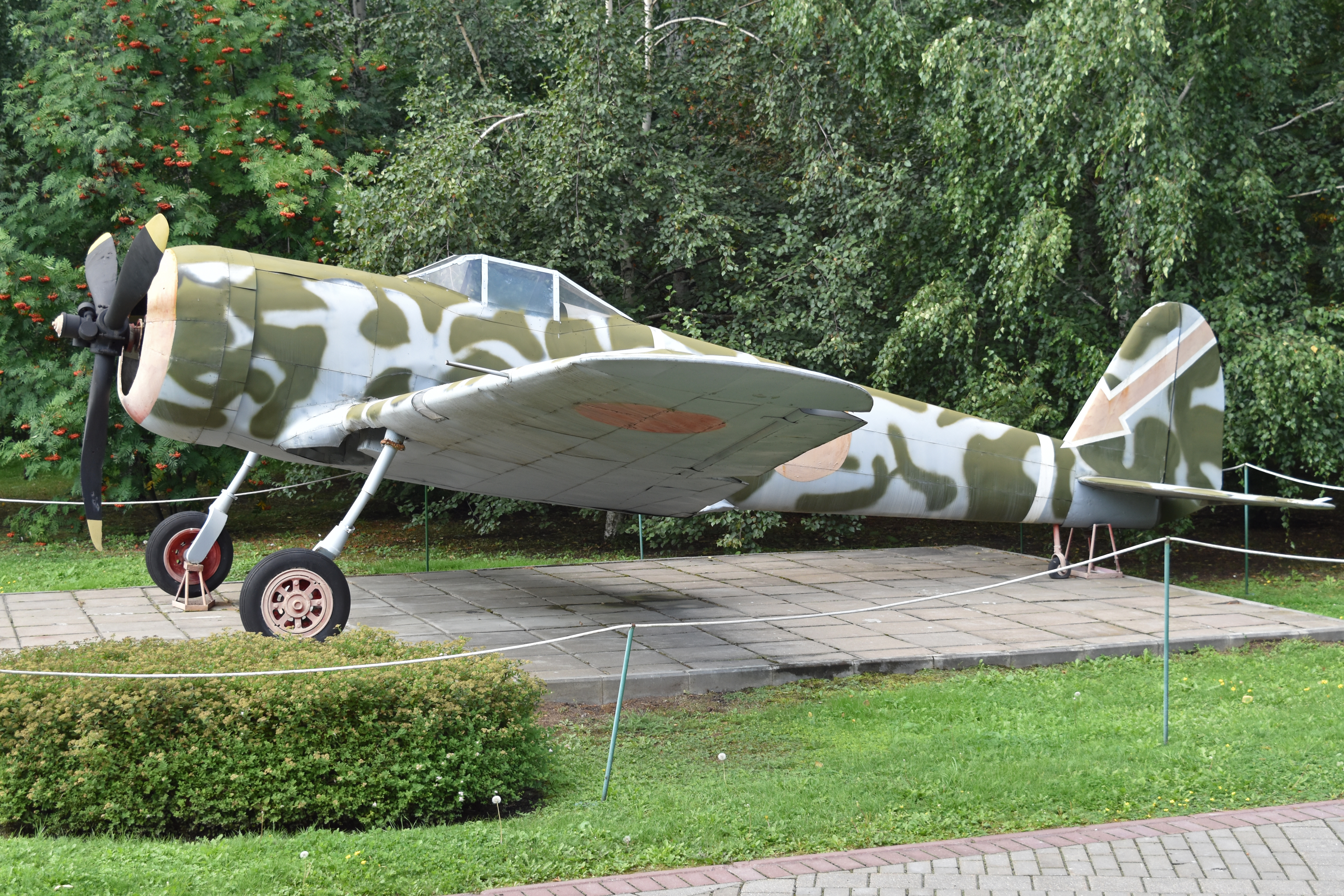 Official designation:- Army Type 1 Fighter Allied reporting name:- Oscar The name ‘Hayabusa’ translates as Peregrine Falcon. This Ki-43 is based on wreckage recovered from a crash site. Rebuild with many new parts to form a complete airframe, as with many of the exhibits in this museum it captures the spirit of the original without letting accuracy get in the way! On display in ‘Victory Park’, Museum of the Great Patriotic War, Poklonnaya Hill, Moscow, Russia. 26th August 2017